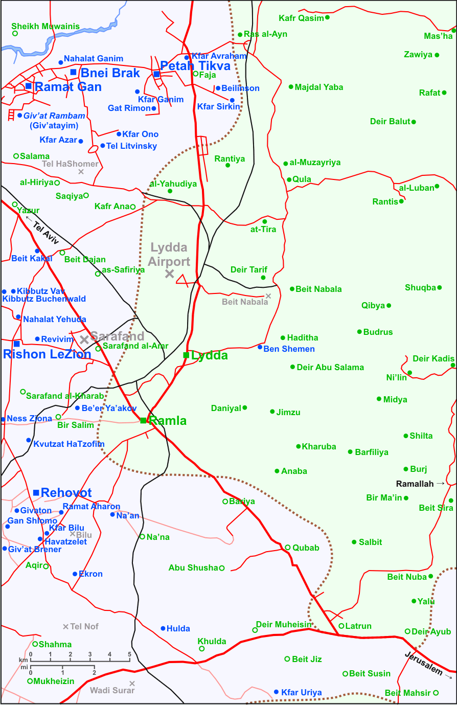 Lydda-Ramla front in Operation Danny.